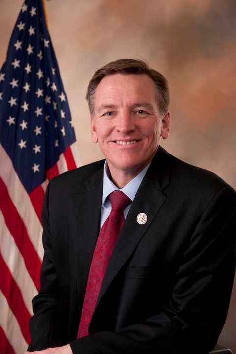 Official portrait of US Rep. Paul Gosar.